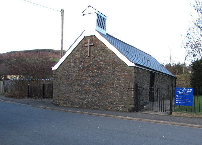 St Gwynno's Church, Abercynon Viewed across Alexandra Road. St Gwynno's Church is part of the Parish of Abercynon in the Church in Wales Diocese of Llandaff. The Church in Wales website states that the Parish of Abercynon with a population of c 5,000 inhabitants is a former mining community situated at the southern end of the Cynon Valley Deanery c18 miles north of Cardiff. Though the village has an industrial history, the surrounding area is primarily rural. The Parish Church of Saint Donat was built in 1898 at the southern end of the Parish. In 1904 the much smaller Church of Saint Gwynno, seen here, was established to serve the northern side of the valley. Gwynno, or Gwynnog ab Gildas, was a 6th century Welsh saint.